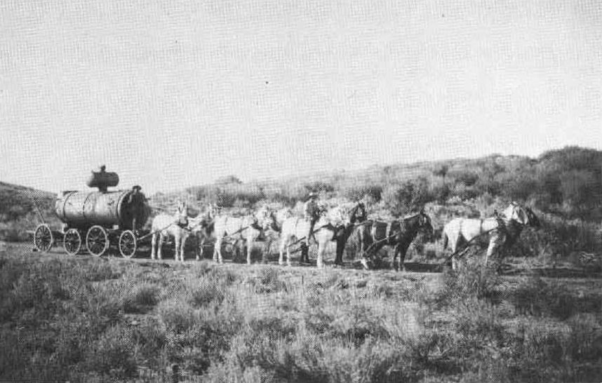 Boiler for steamer Winema being shipped by horse-drawn transport.